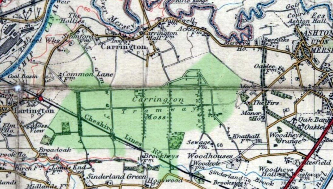 The center map is Bolton and Manchester, England and Wales Popular (4th) edition. Published in 1937. Based on 1924 mapping. Donated by Joyce Whitchurch. Green boundary taken from page 17 of Nicholls, Robert (1985) Manchester's Narrow Gauge Railways: Chat Moss and Carrington Estates, Narrow Gauge Railway Society, ISBN 0950716928 Cropped to show Carrington Moss.